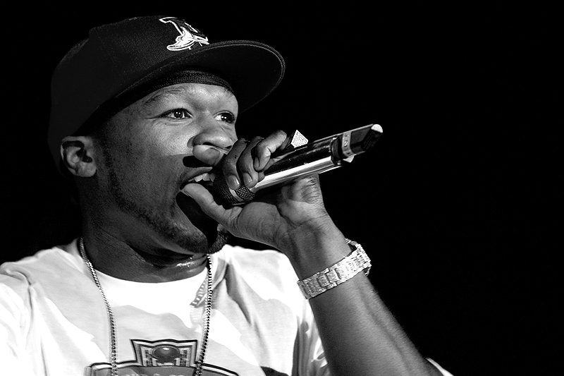 Rapper 50 Cent in concert sporting Bling-Bling